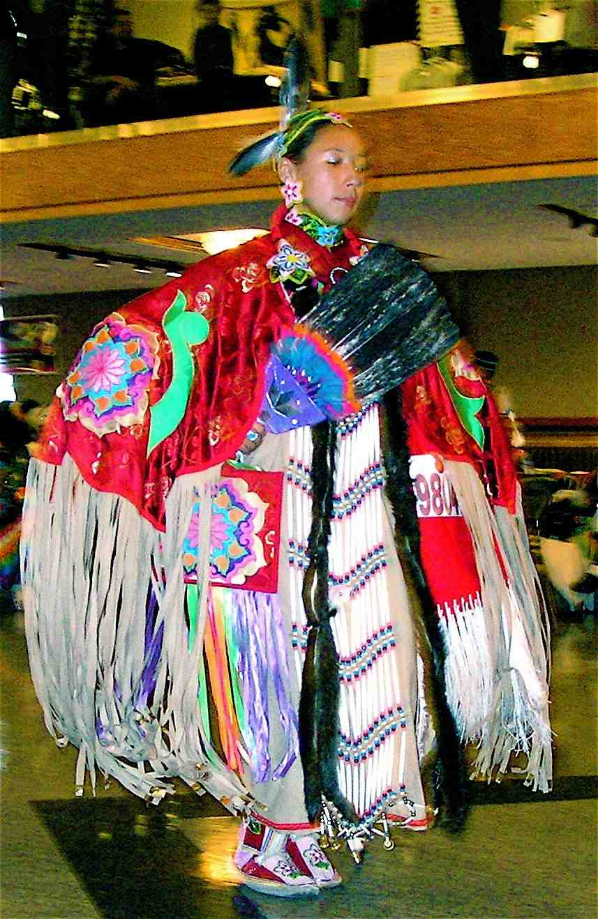 Image from Last Chance Community Pow Wow 2007, Helena, Montana